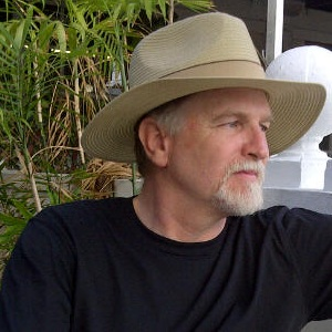 Photo of science fiction writer Jack Skillingstead